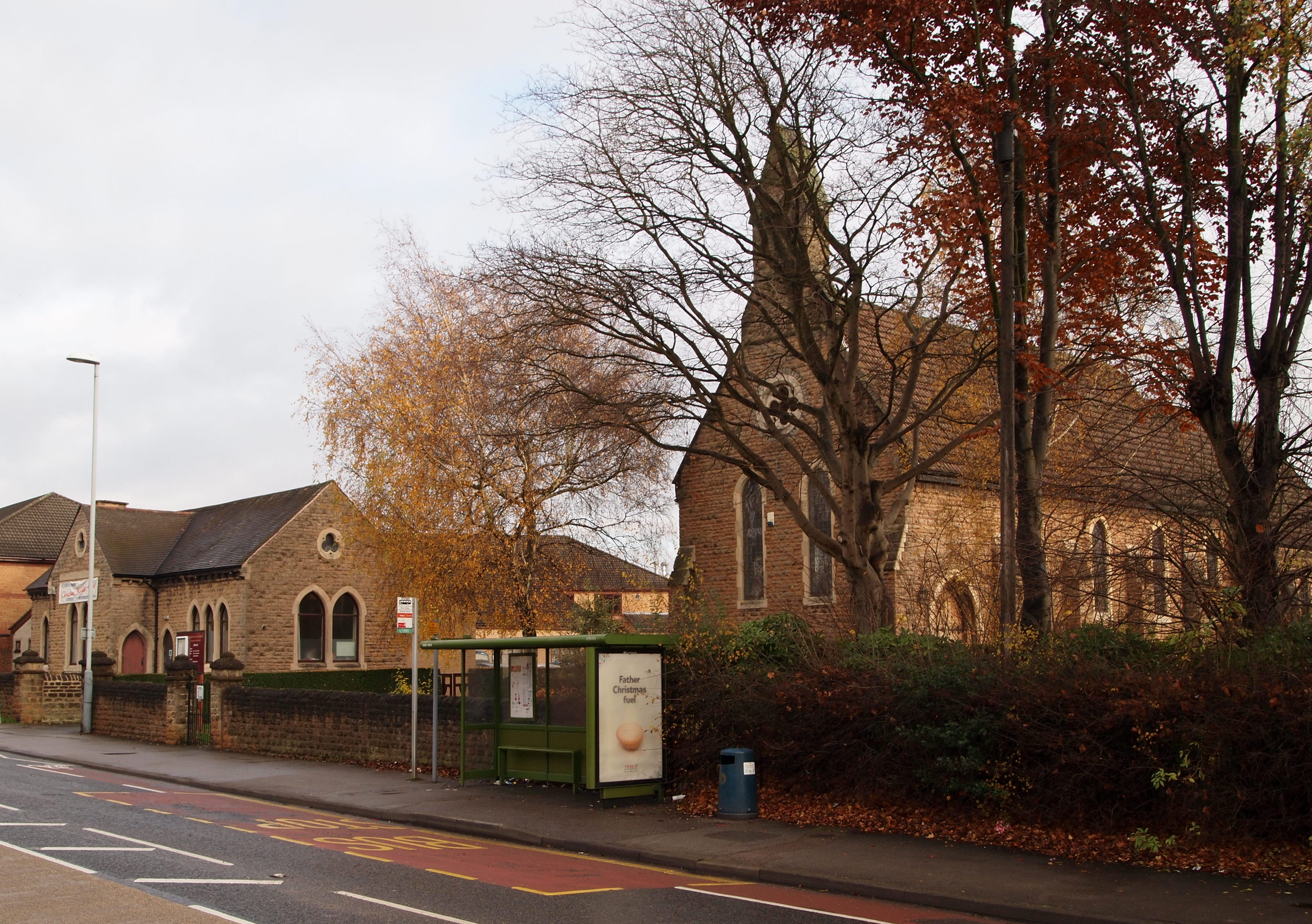 Hucknall, NG15 - Butler's Hill Area